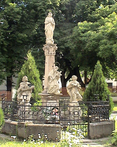 Statue – Unstained conception. Miskolc, Hungary